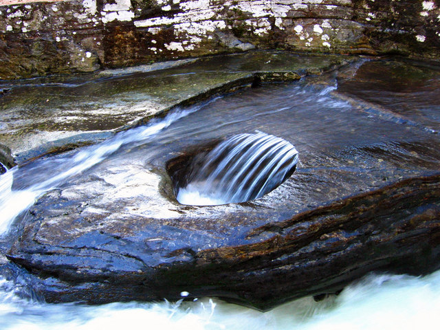 The Earl O Mar's Punchbowl. A glacial feature on the river Quoich.